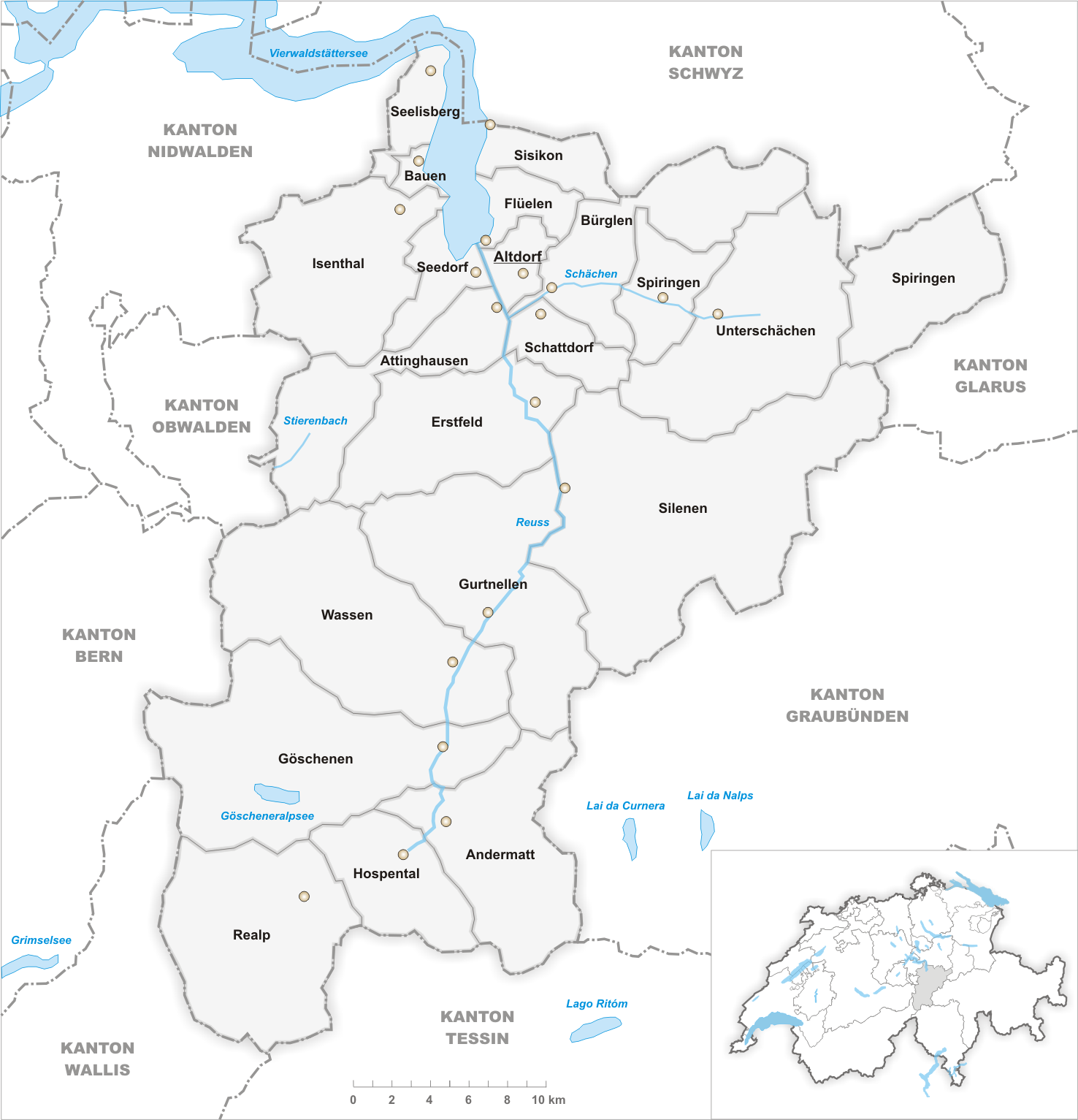 Municipalities in the canton of Uri